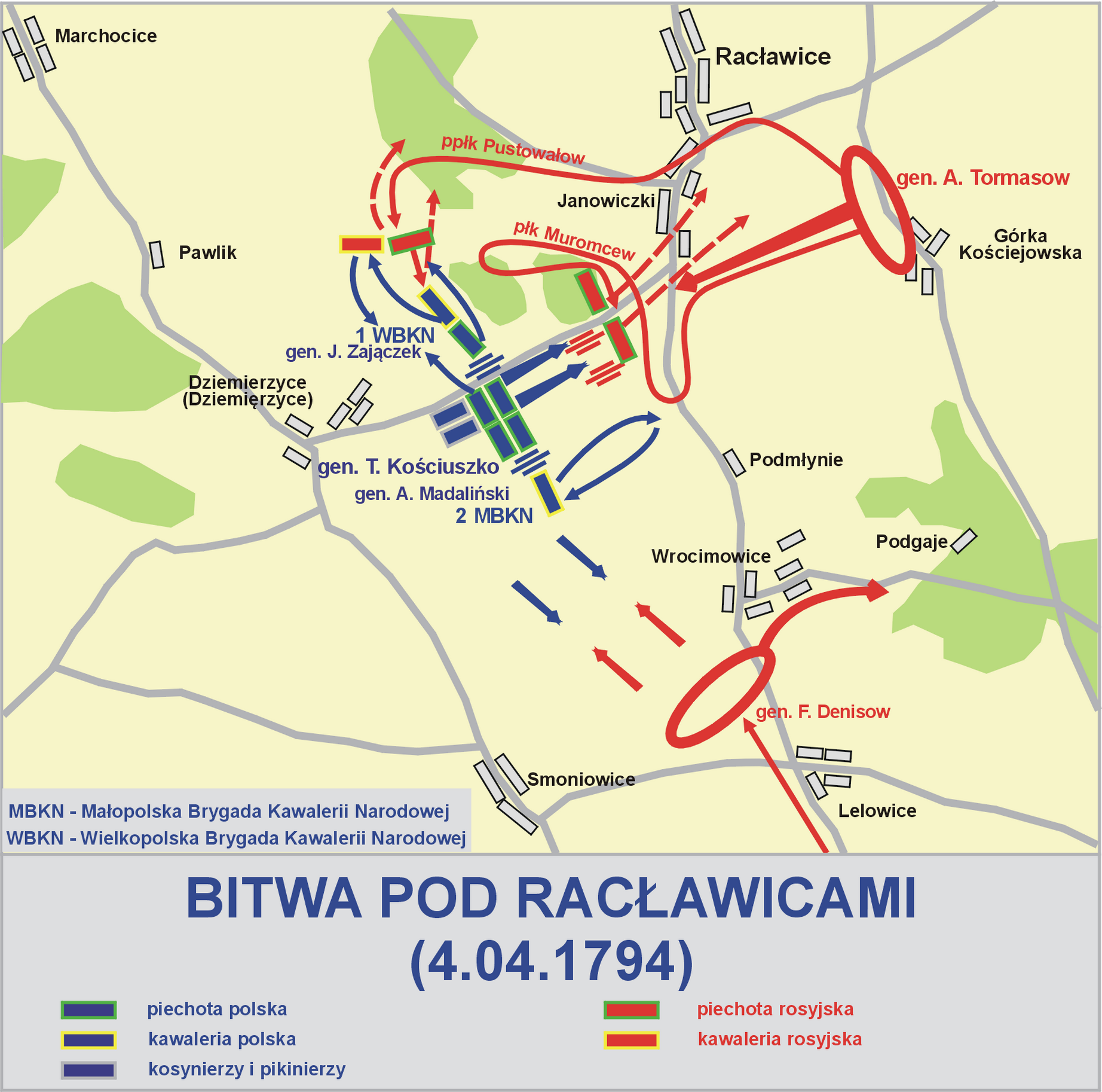 Battle of Racławice (04.04.1794)